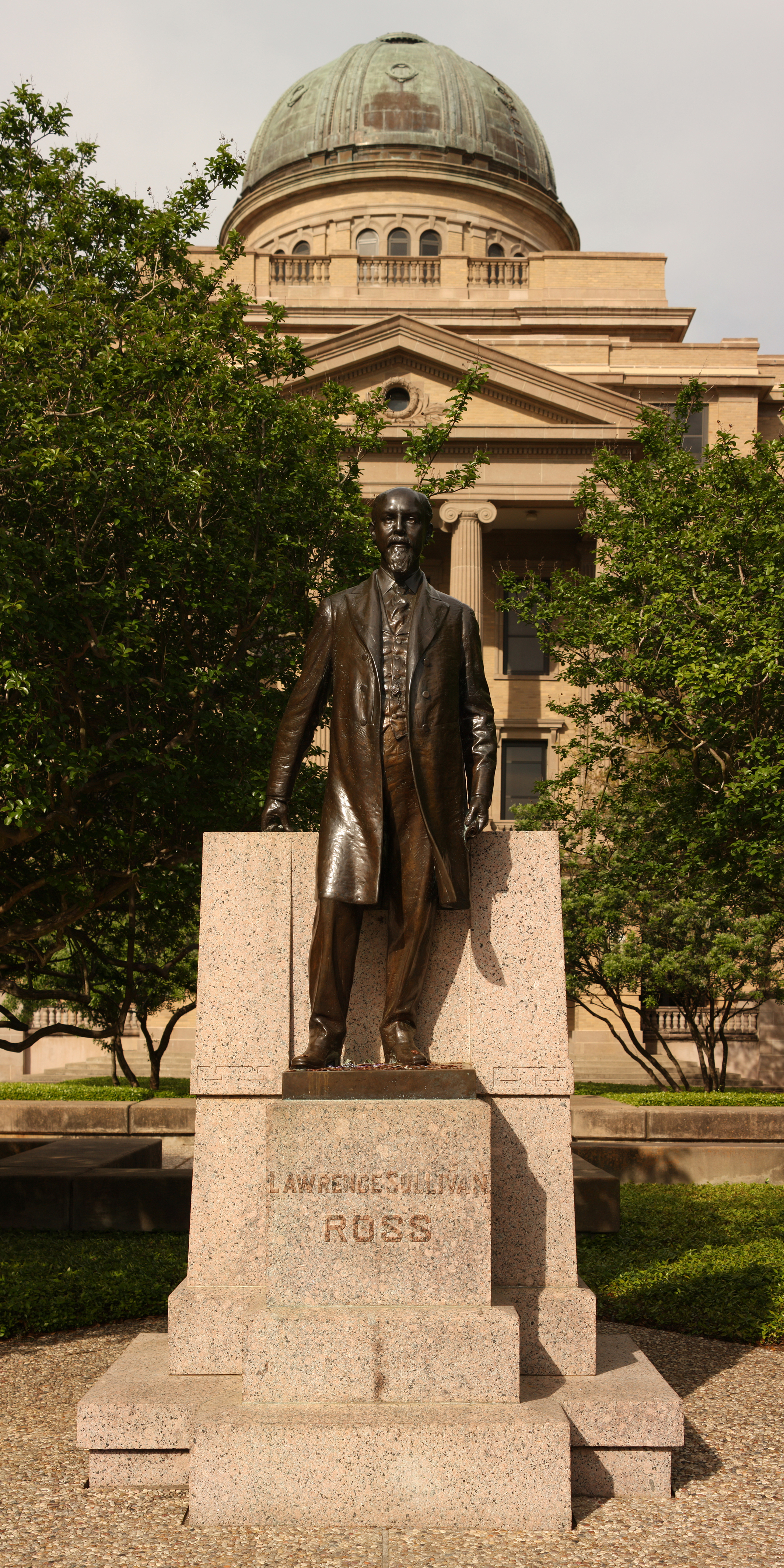 A statue of Sul Ross in the Academic Plaza of Texas A&M University. It was sculpted by Pompeo Coppini in 1918.